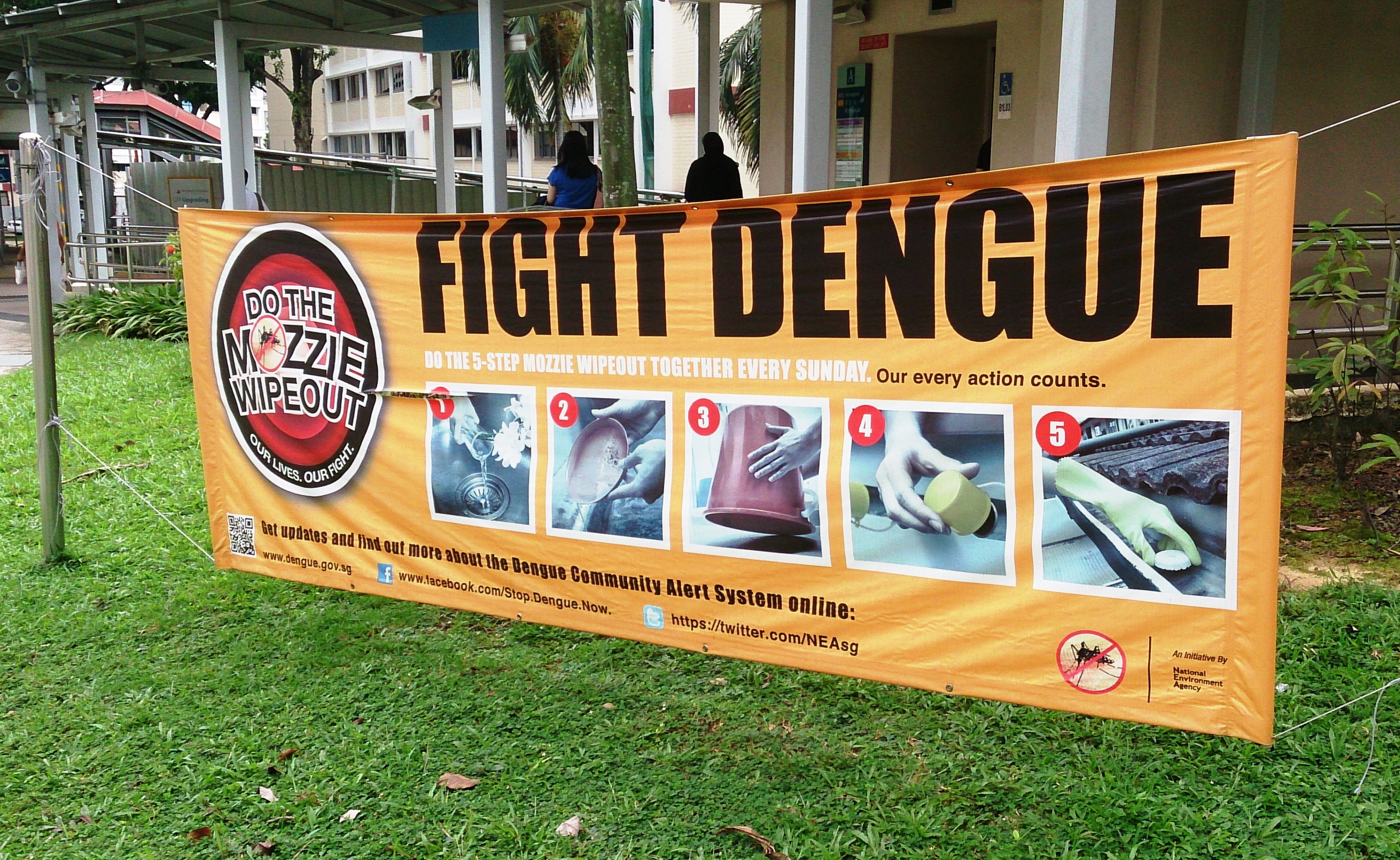 Educational banner hung up in residential neighbourhoods to teach residents how to prevent dengue in Singapore. December 2013.